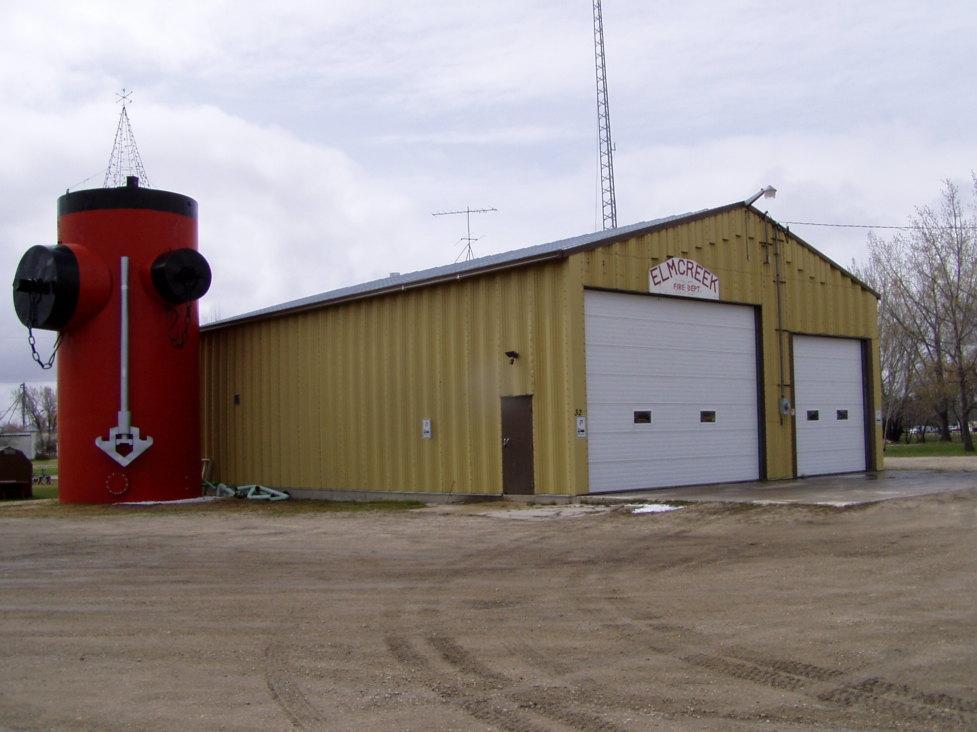 Elm Creek, Manitoba fire department, May 2, 2005